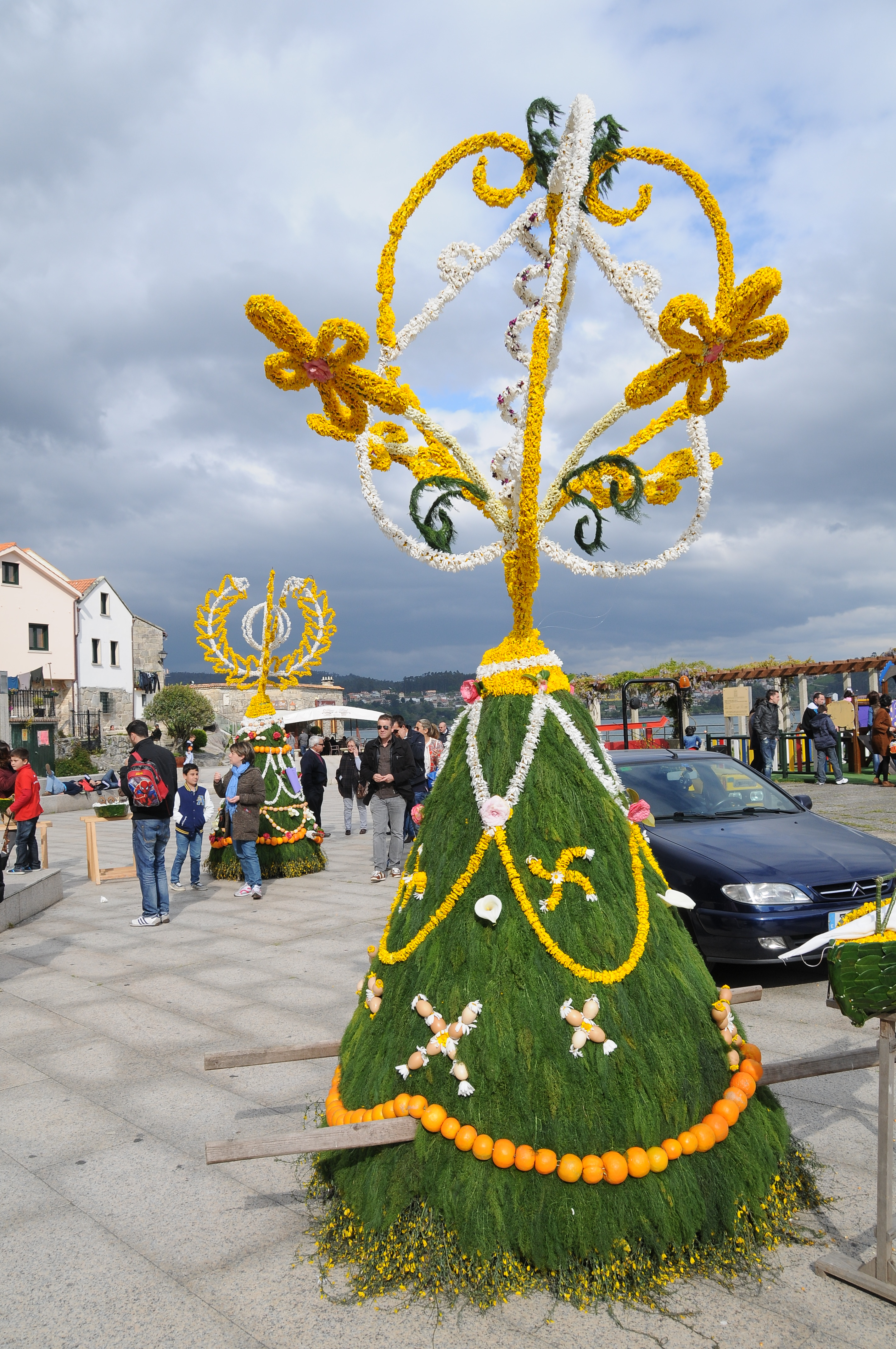 "Festa dos maios" in Combarro, Poio, Pontevedra, Spain.